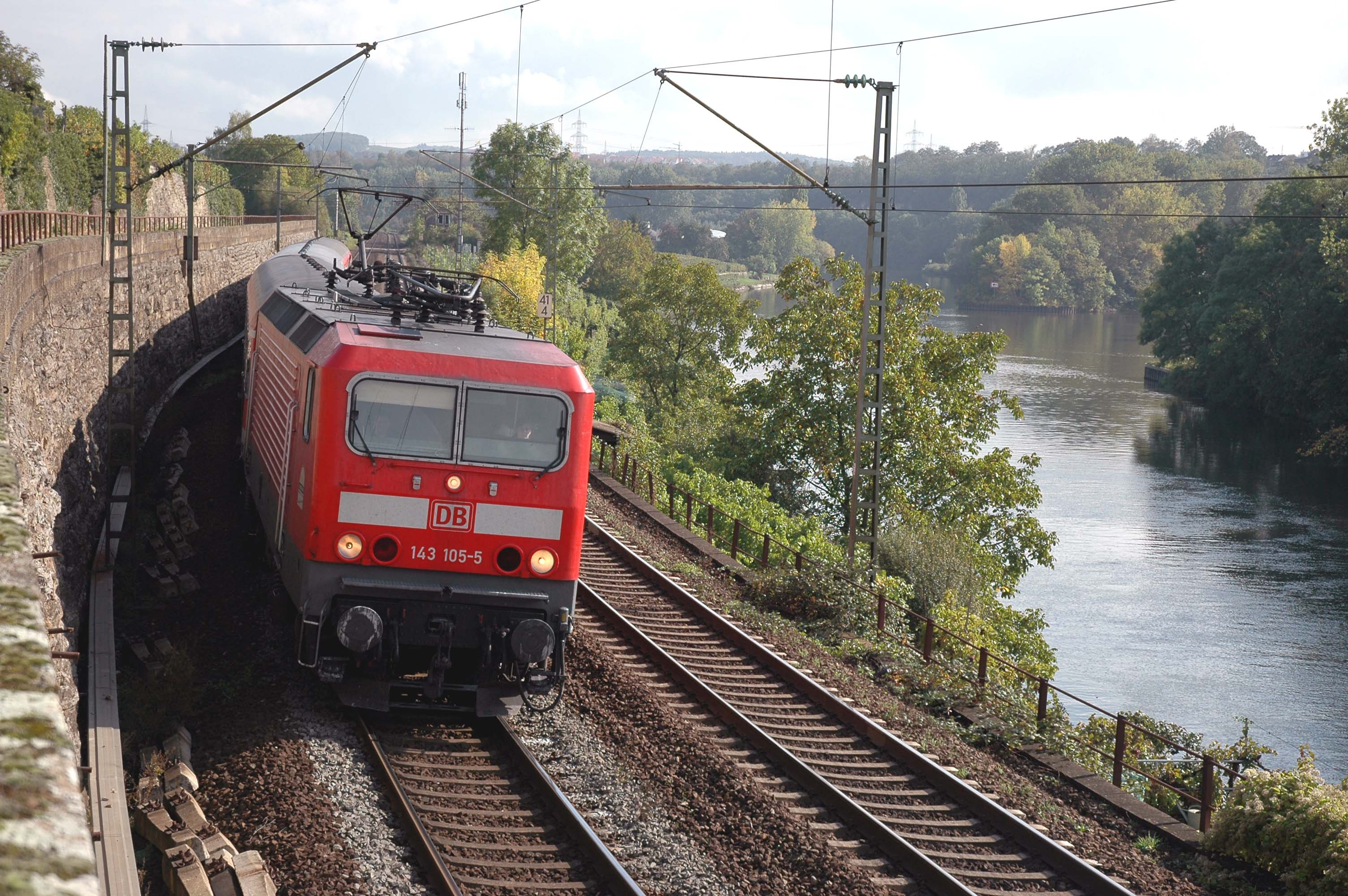 DB 143 105 near Lauffen am Neckar with train RB 19835.